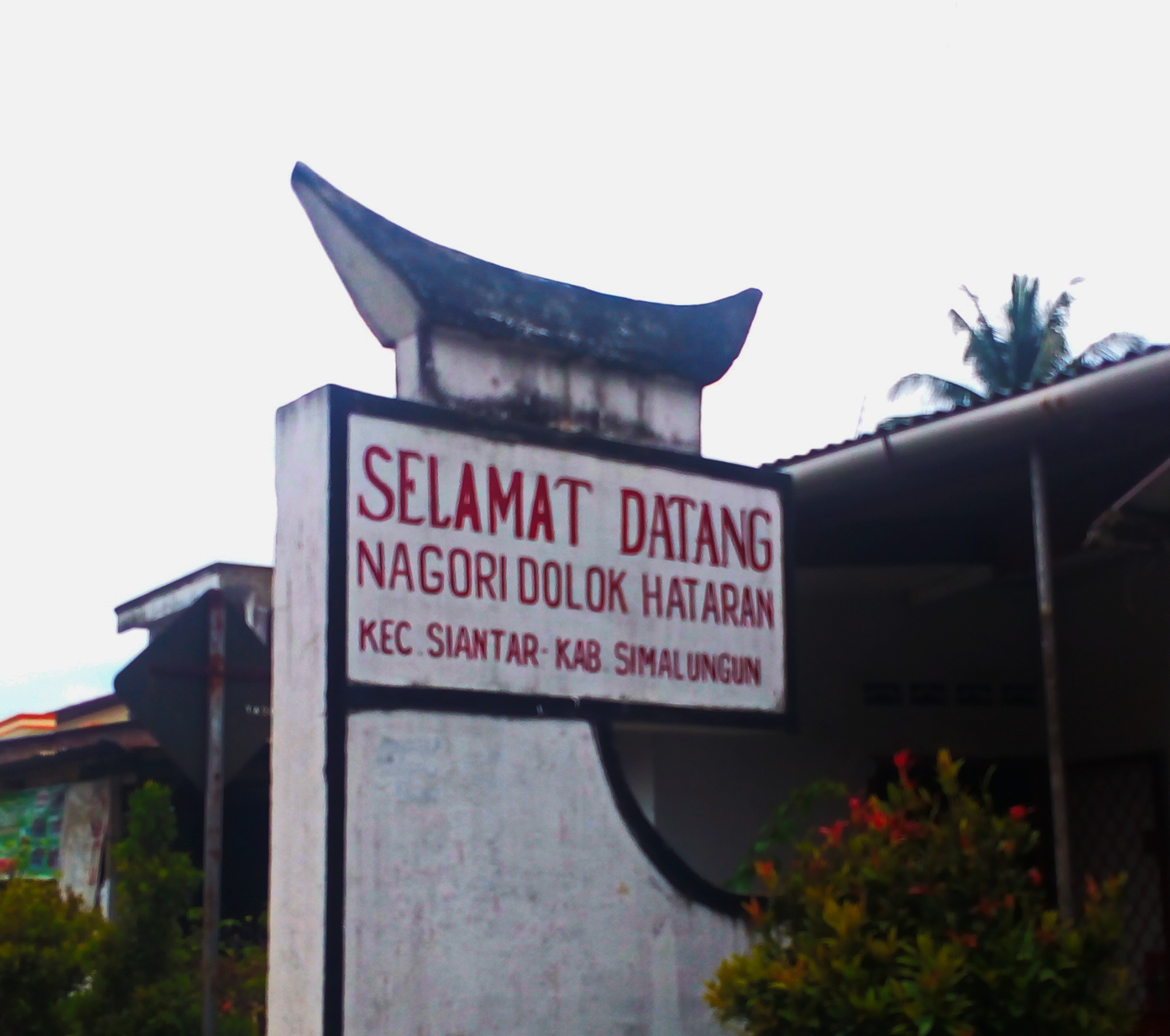 Welcome gate to Dolok Hataran, Siantar, Simalungun